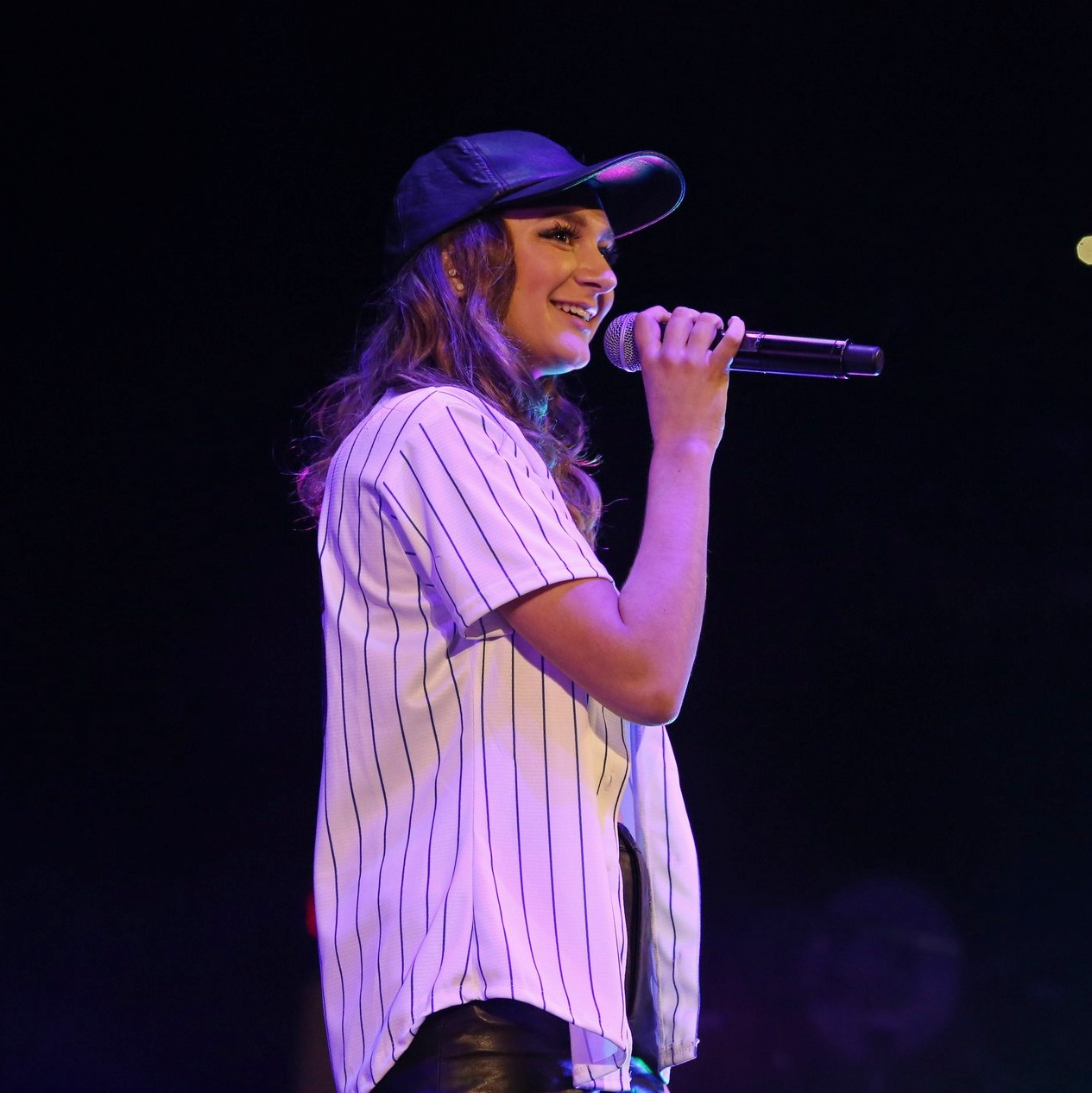 Daya performing at B96 Pepsi Summer Bash 2016